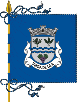 Veiga de Lila Flag.